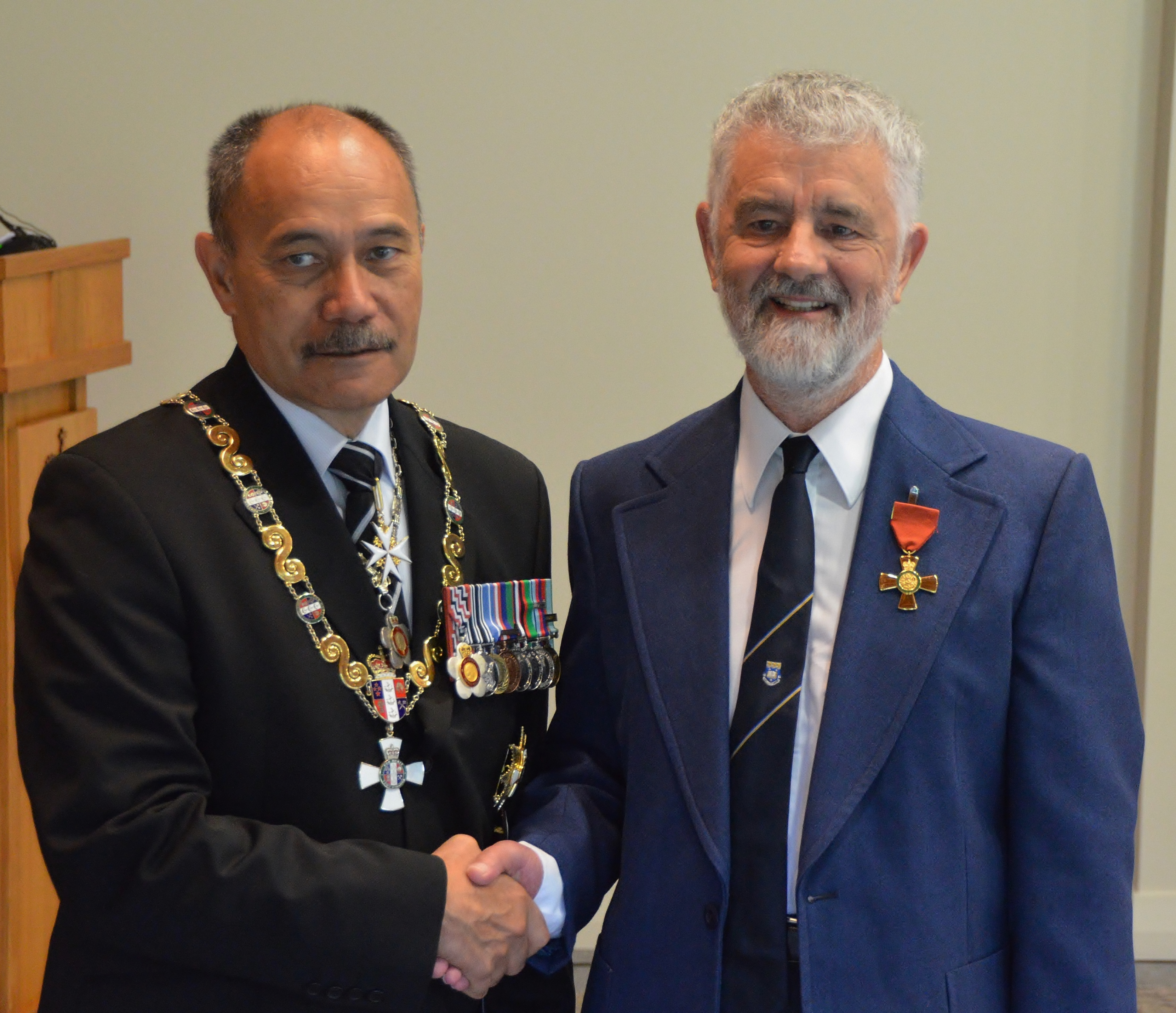 Professor David Gauld (right), of Auckland, after his investiture as ONZM, for services to mathematics, by the governor-general, Sir Jerry Mateparae, on 28 April 2016.